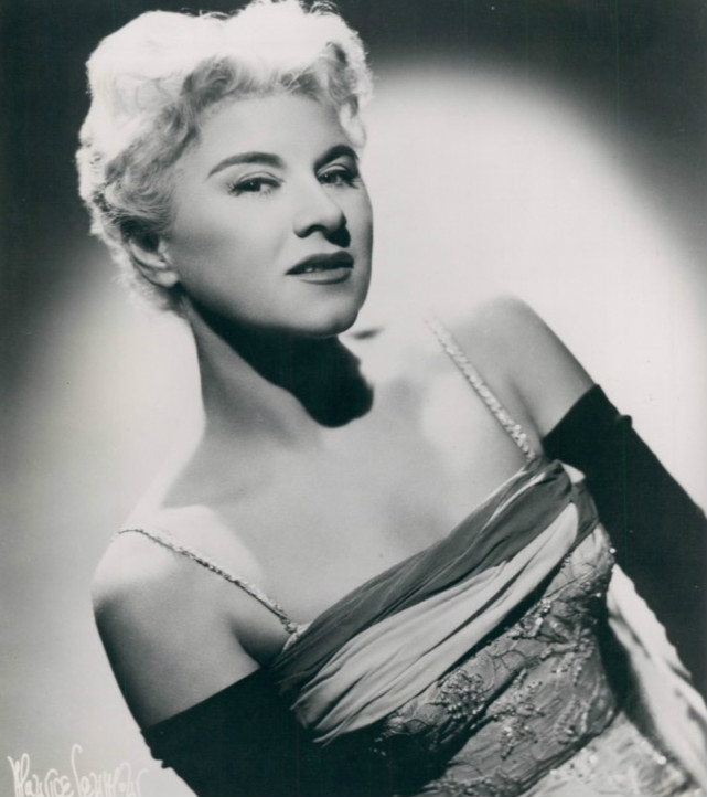 Publicity photo of the US cabaret singer Hildegarde.